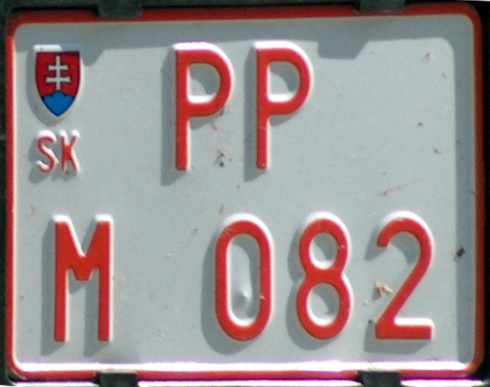 Slovakian license plate for dealers, PP = Poprad, M = Dealer